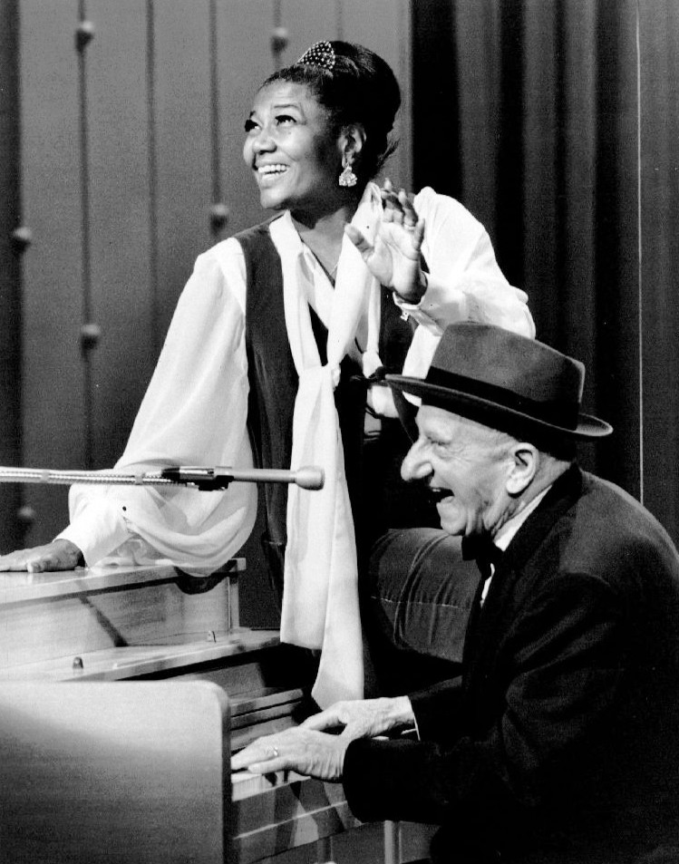 Photo of Pearl Bailey and Jimmy Durante from Bailey's short-lived variety television program, The Pearl Bailey Show.